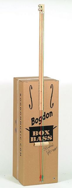 This was the original design. Two strings tuned to E - A. This design was discontinued in 2012.